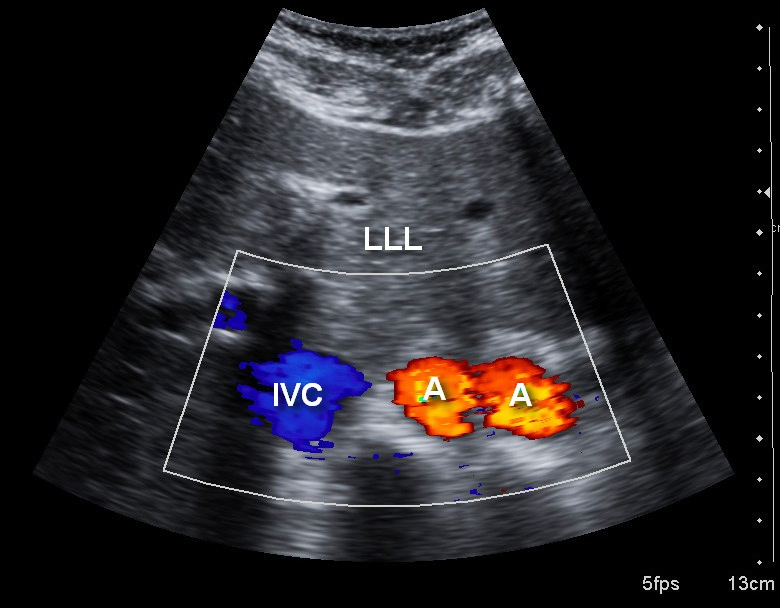 Ultrasound images of aorta duplication artifact. A refraction artifact which results from the difference in the velocity of sound between muscle tissue and fat tissues.